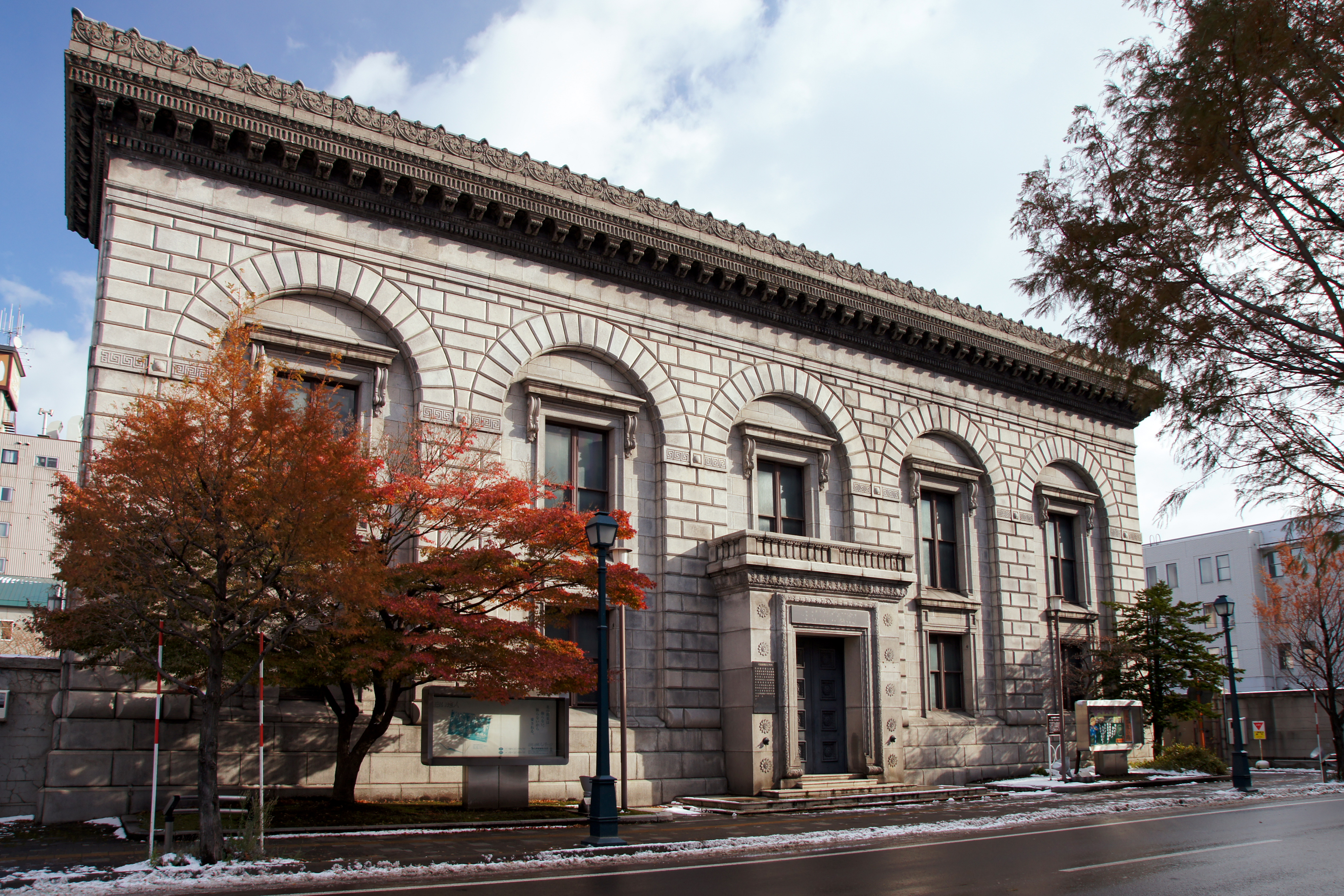 Former Mitsui Bank Otaru Branch in Otaru, Hokkaido prefecture, Japan